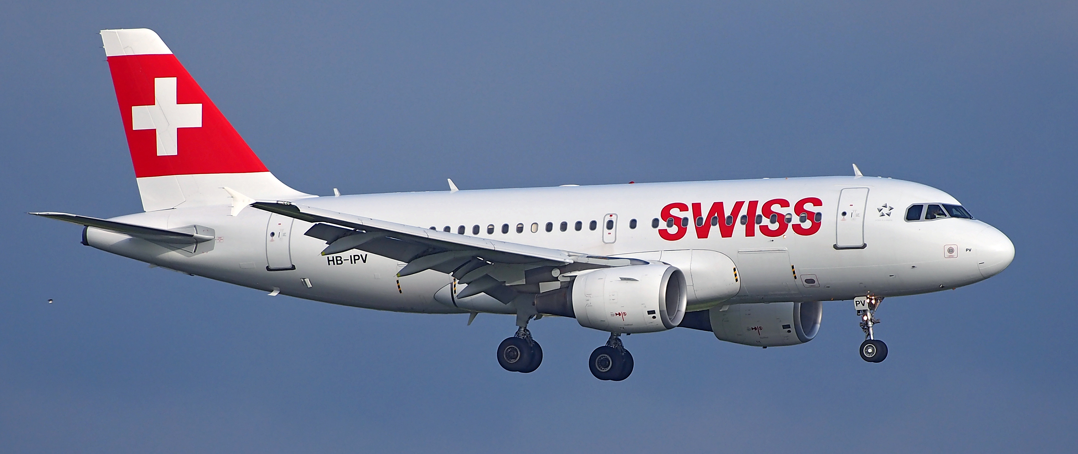 Photographed at Schiphol (AMS - EHAM), The Netherlands.